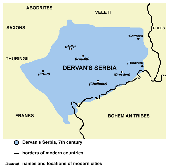 Dervan's Serbia, 7th century.